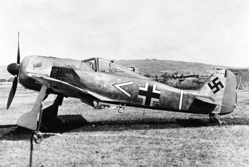 A German Focke-Wulf Fw 190 A-3 of 11./JG 2 after landing in the UK by mistake in June 1942.